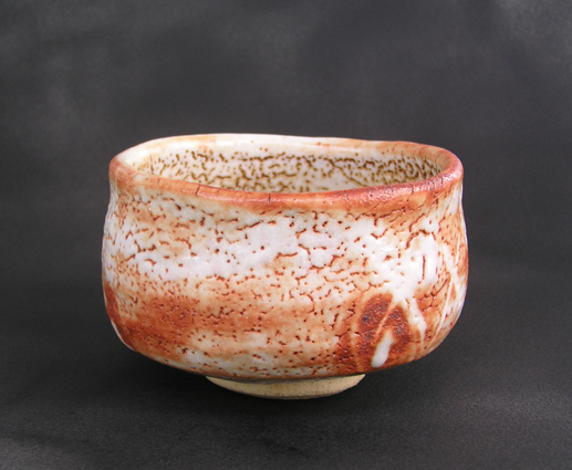 Shino tea bowl - chawan